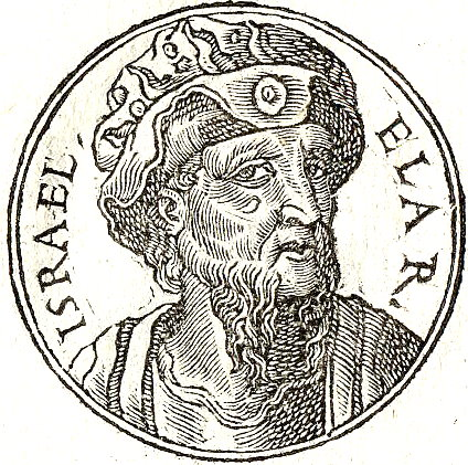 Elah was a son of Baasha, who succeeded him as king of Israel.